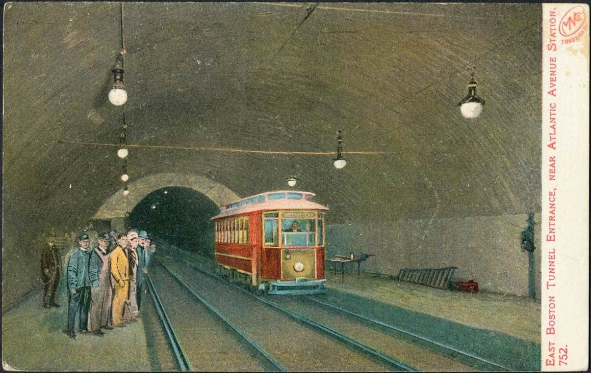 Undivided-back postcard of a streetcar in Atlantic Avenue station around 1906. Strangely, the streetcar is running on the left-hand track, which may be artistic license.